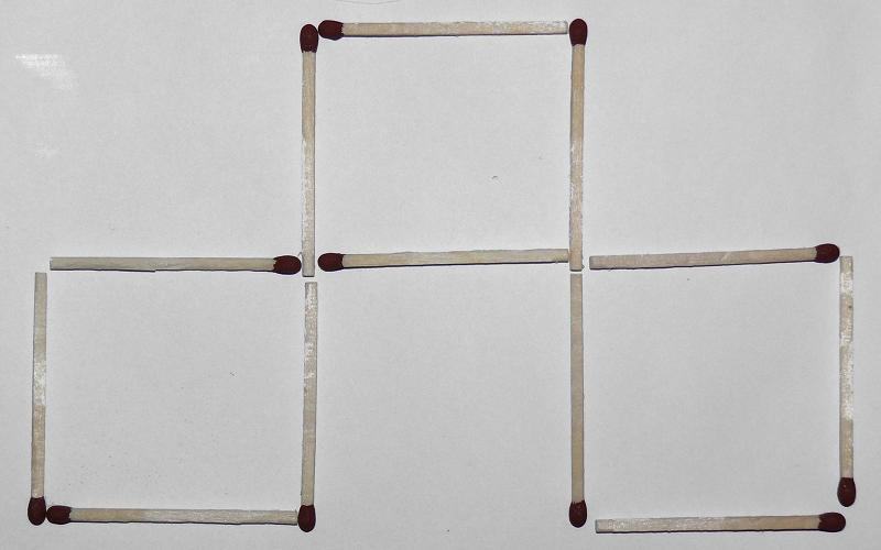 The solution of the above Match Quiz